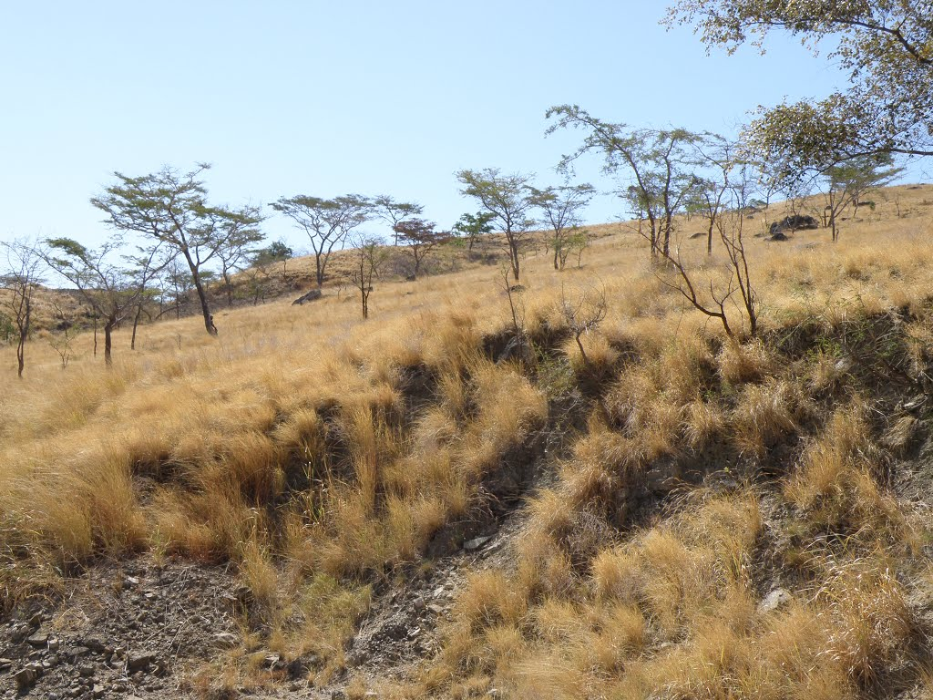 Low rainfall grassy savanna near Laleia